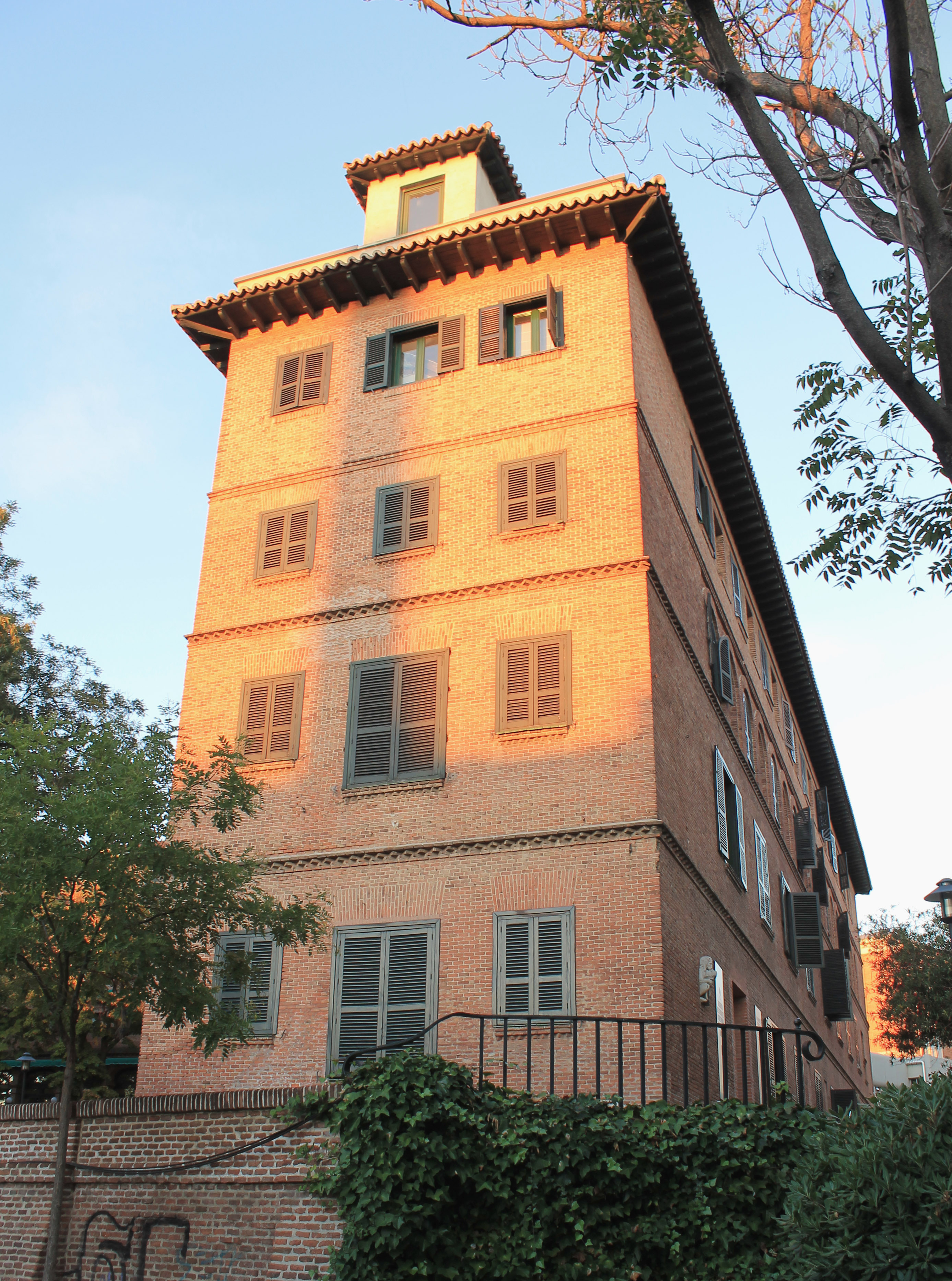 Partial view of Residencia de Estudiantes in Madrid (Spain).